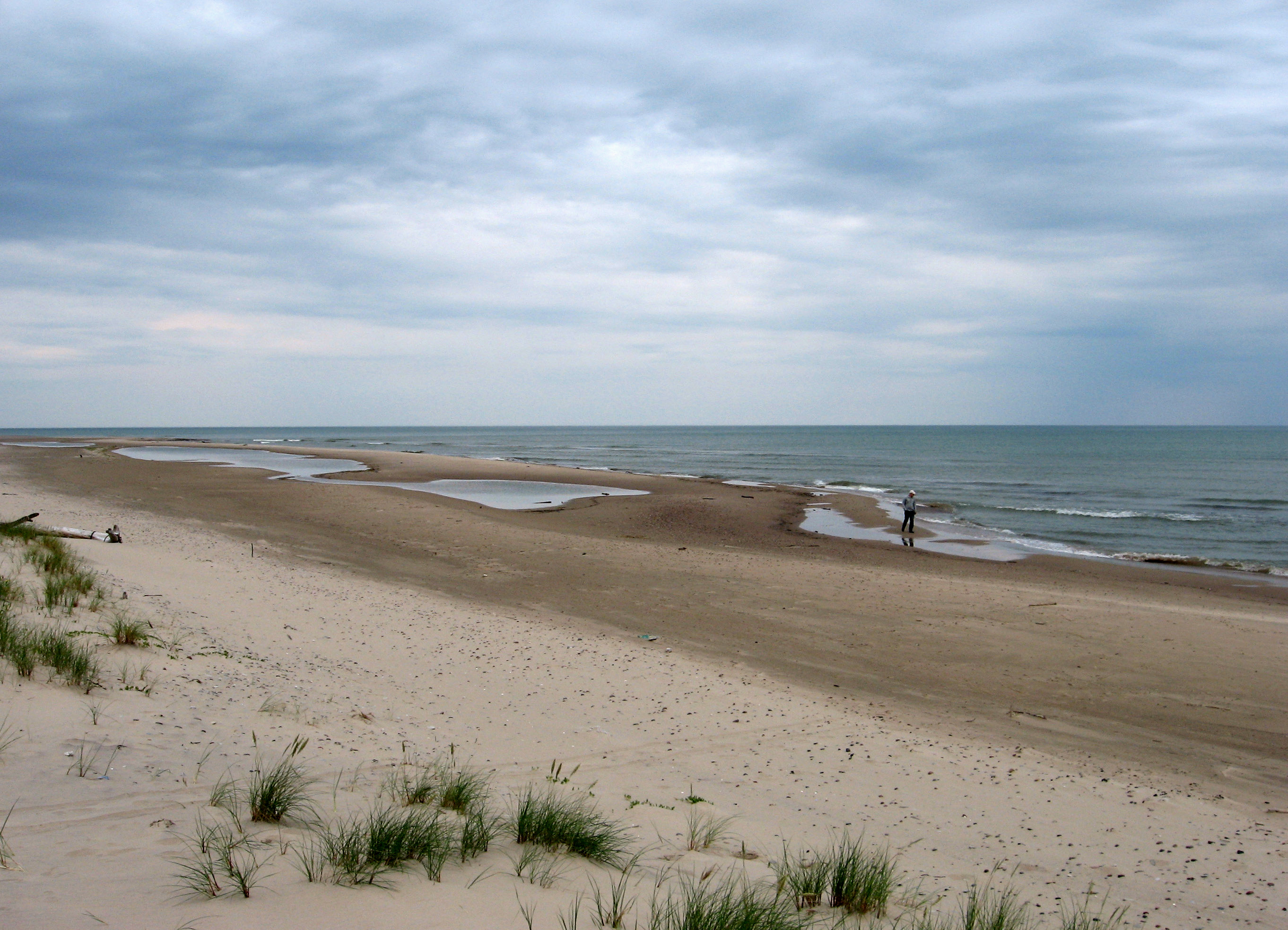 Cape Ovišrags in Latvia